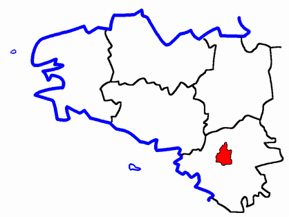 Description: Map for localisazion of cantons of Pays-de-Loire, region in France Source: made by Hervé Tigier in april 2005 from another large map (published in 1990)